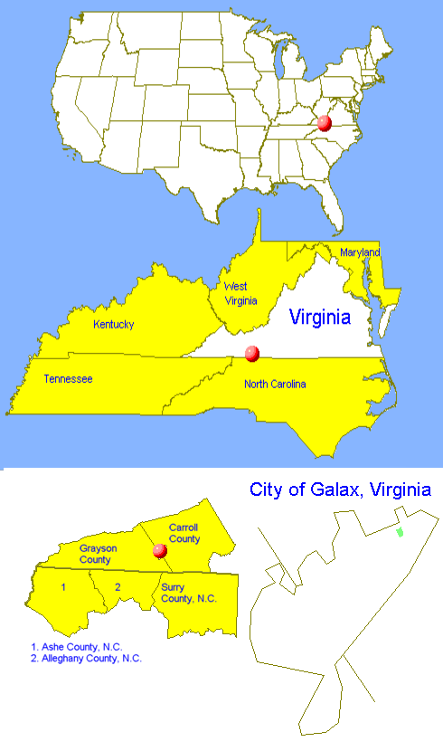 City of Galax, VA (least populous city in Virginia) and surrounding counties in Virginia and nearby counties in North Carolina. From U.S. Census Tiger Map server with additional information by the uploader.